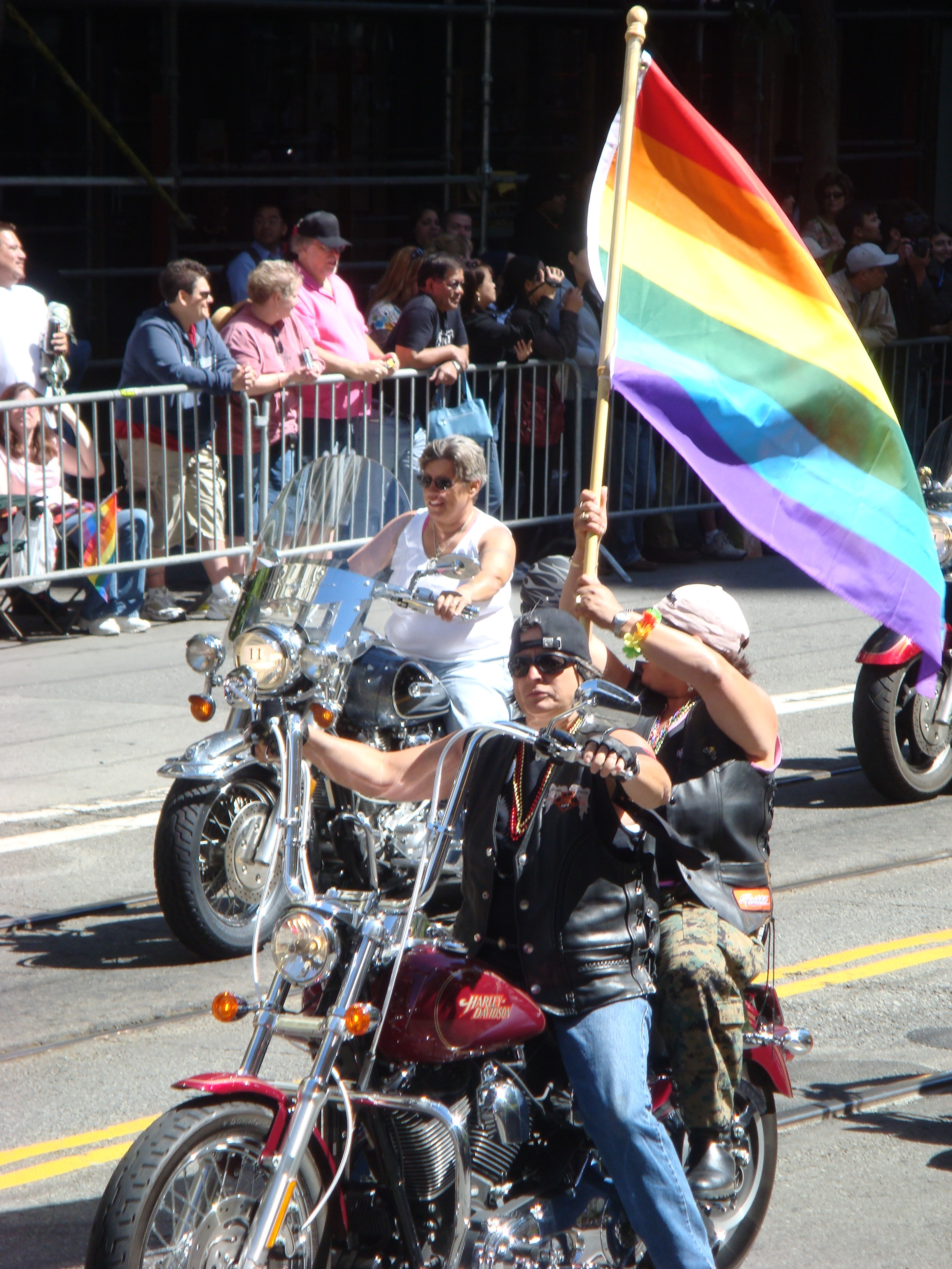 Dykes on Bikes Lead the Gay Pride Parade in San Francisco evry year.